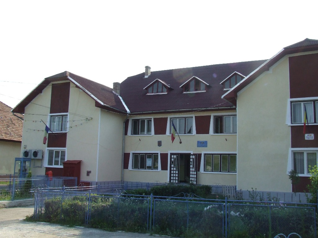 Townhall in Treznea, Sălaj County, Romania